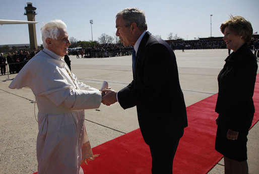 President George W. Bush takes the hand of Pope Benedict XVI as he and Mrs. Laura Bush welcomed the Pope to the United States upon his landing at Andrews Air Force Base, Maryland. Pope Benedict will visit the White House Wednesday and celebrate Mass Thursday before continuing on to New York City.